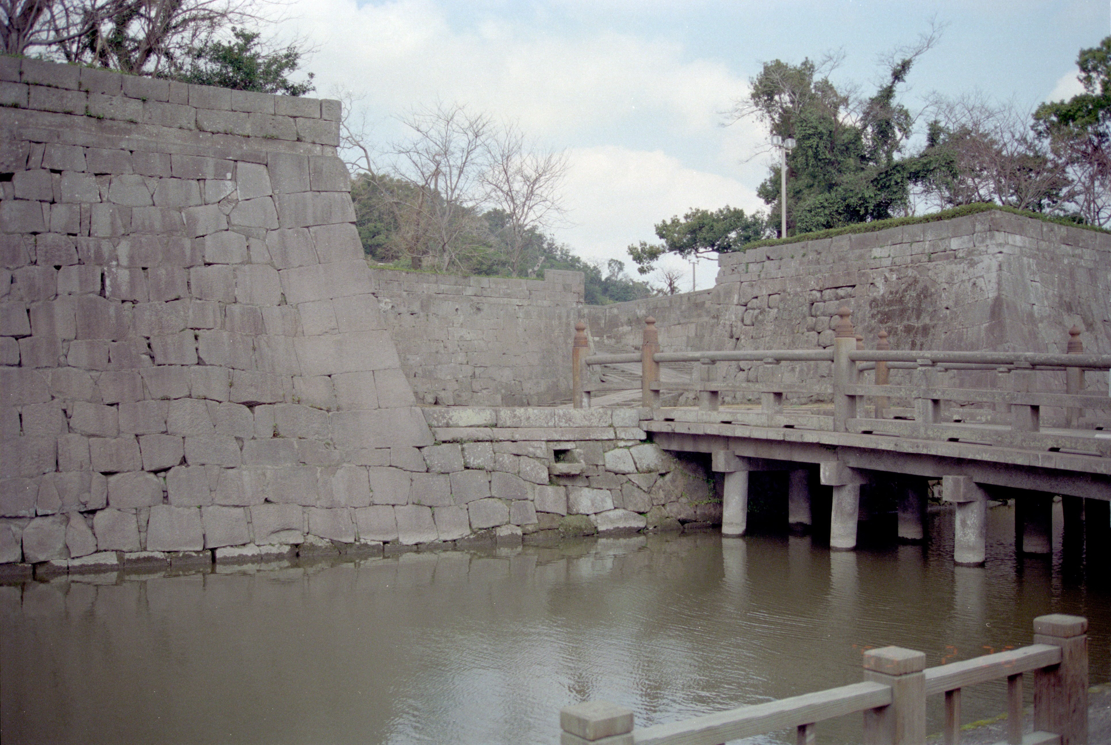 Kagoshima Castle, Kagoshima, Japan.